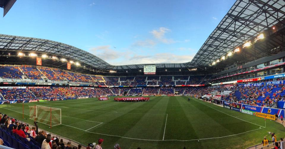 Red Bull Arena (New Jersey) before a match against Montreal Impact.